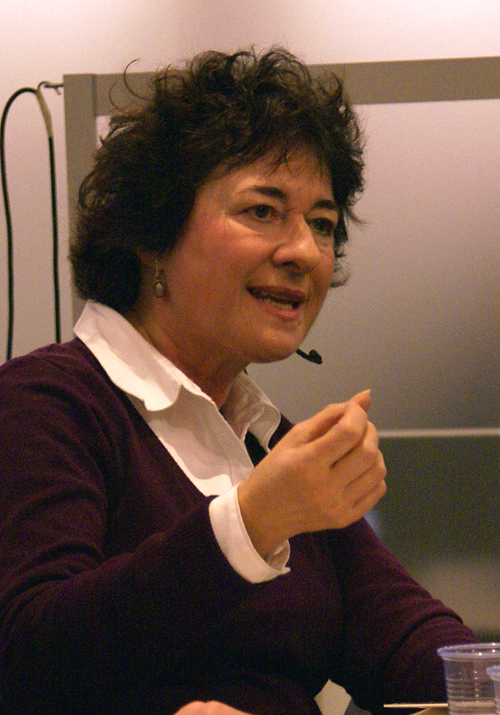 Pia Tafdrup, a Danish writer and poet.